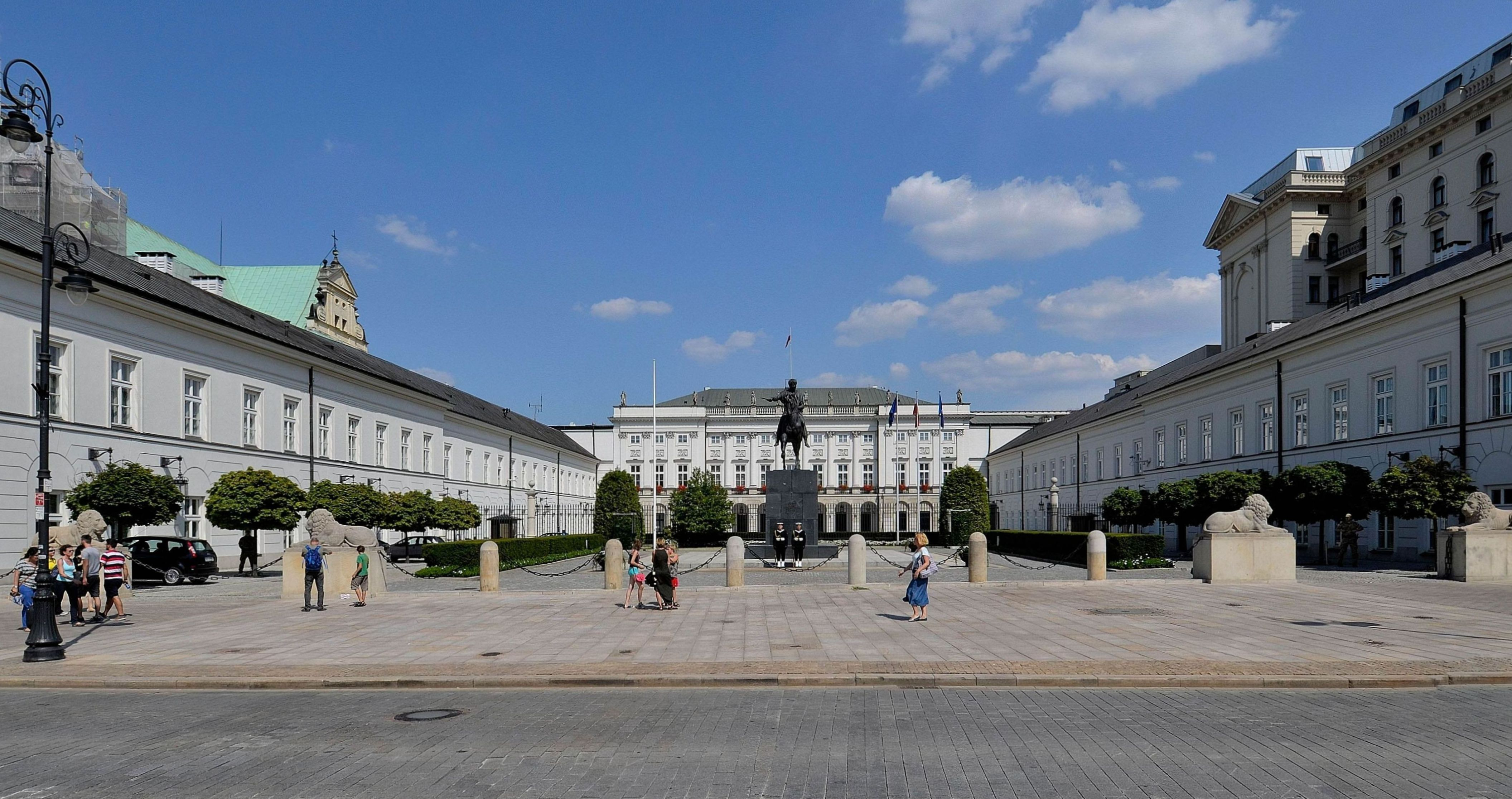 Presidential Palace in Warsaw